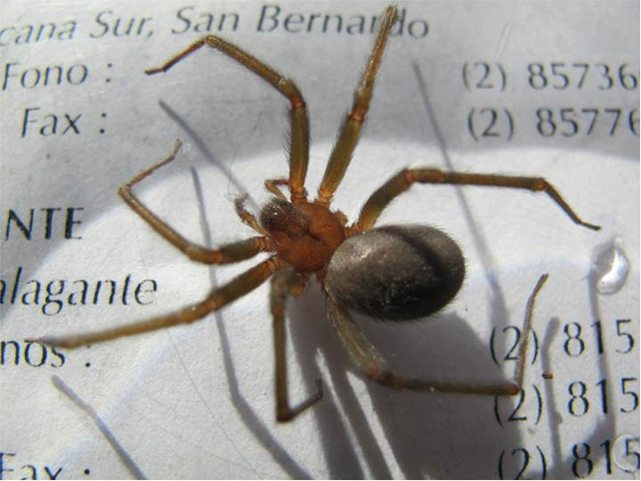 Loxosceles laeta South America: Chile Santiago, Curavat June, 2011. Det Roberto Trincado